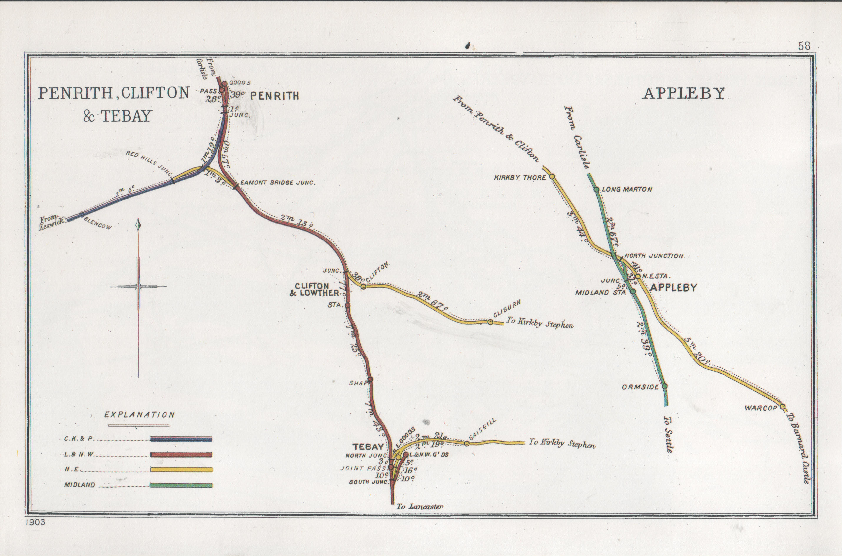 Pre Grouping railway junction around Penrith, Clifton & Tebay; Appleby